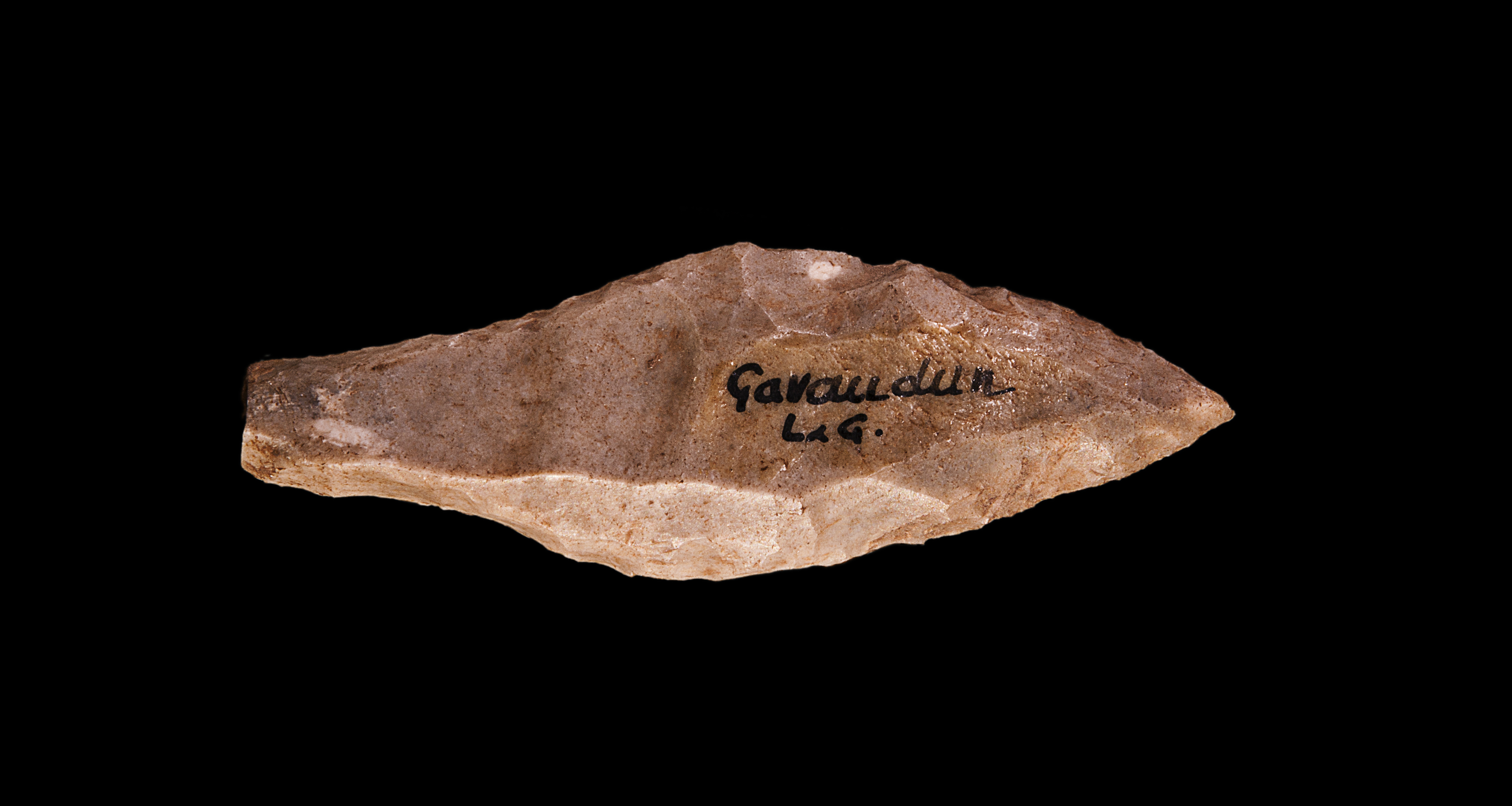 Arrowhead Font-Robert